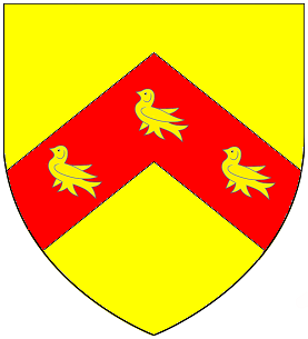 Arms of Chiseldon family of Holcombe Rogus, Devon, per Pole, Sir William (d.1635), Collections Towards a Description of the County of Devon, Sir John-William de la Pole (ed.), London, 1791, p.478